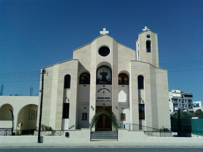 The Saint Charbel Maronite Catholic Church in Limassol,Cyprus.The Church was consecrated by H.B Mgr.Boutros Gemayel Maronite Archbishop of Cyprus in the presence of H.E The President of the Republic of Cyprus Mr.Glafkos Clirides on January 25, 2003. Retrieved from "